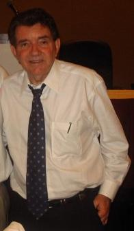 Taken at 2005 Women's Final Four in Indianapolis by Greg Petersen